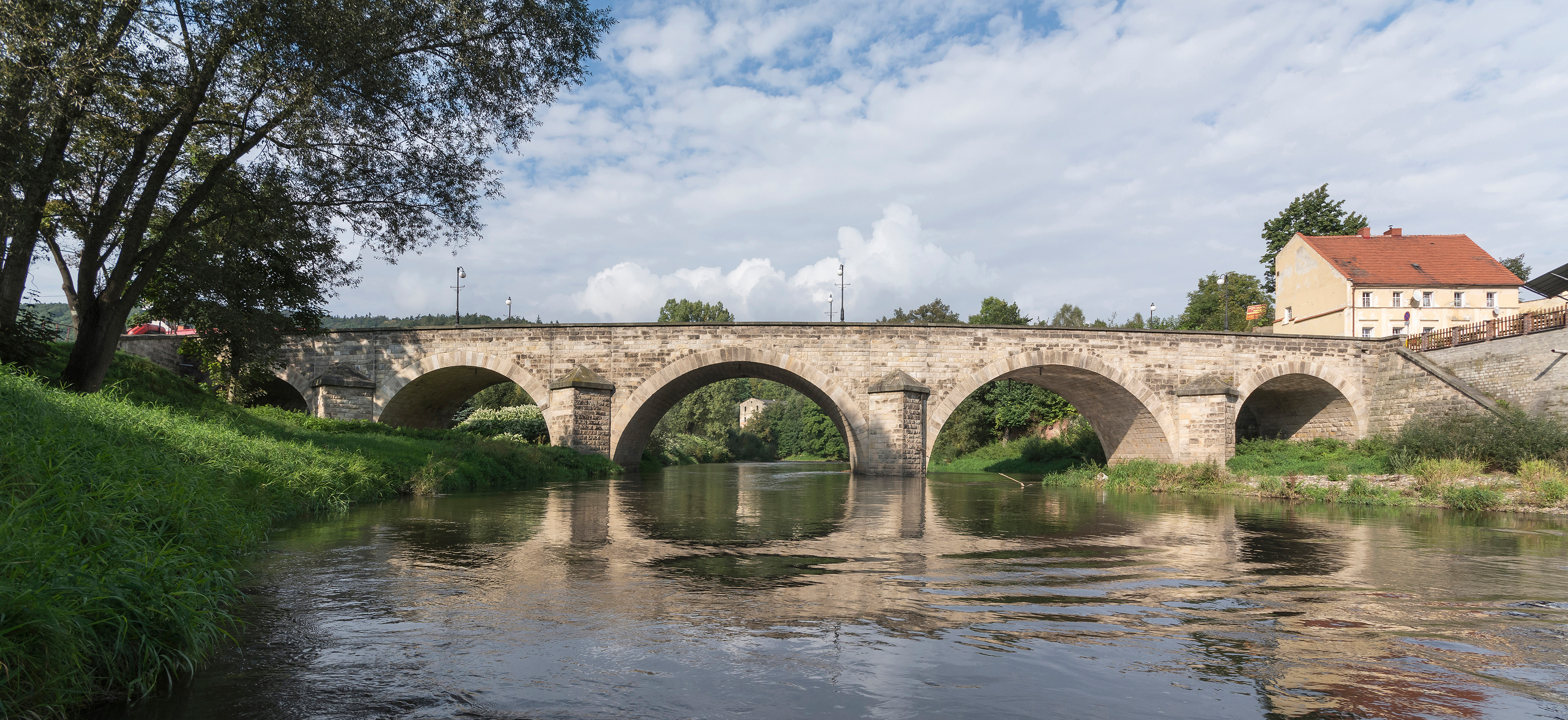 Stone bridge in Bardo Ta fotografia przedstawia zabytek wpisany do rejestru zabytków pod numerem ID 599890